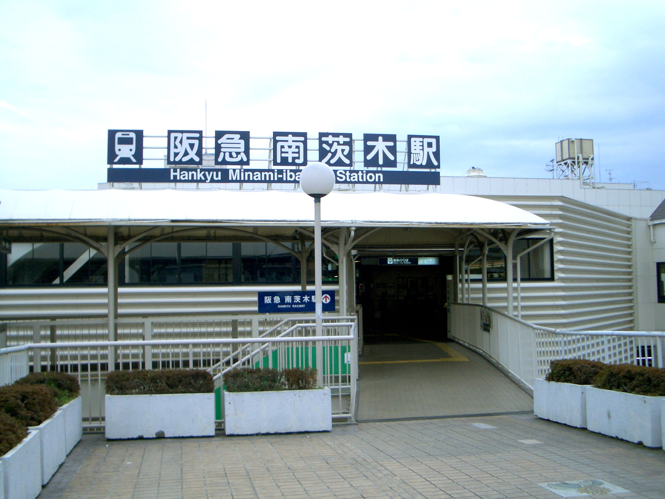 Minami-Ibaraki Station in Tenno, Ibaraki City, Osaka, Japan